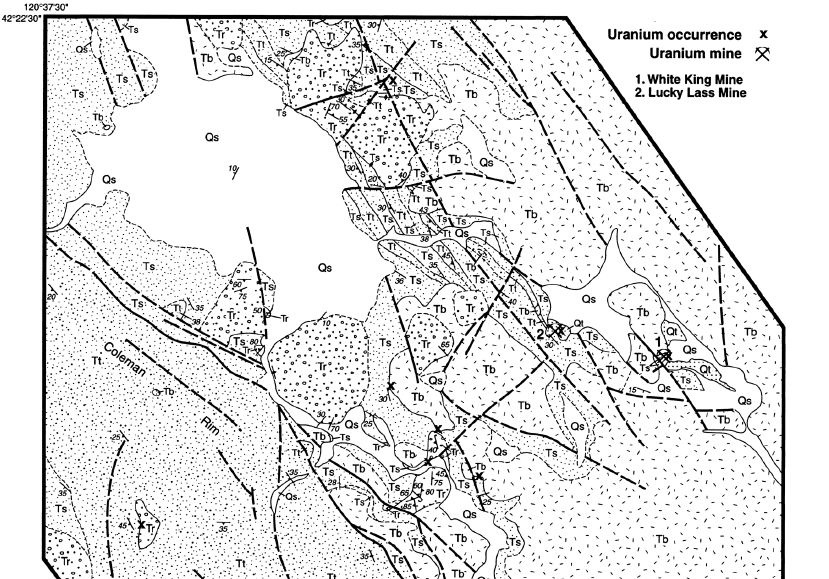 USGS geologic map of the Lakeview District, where Tb are Miocene basalt flows, and Qt are mine tailings.